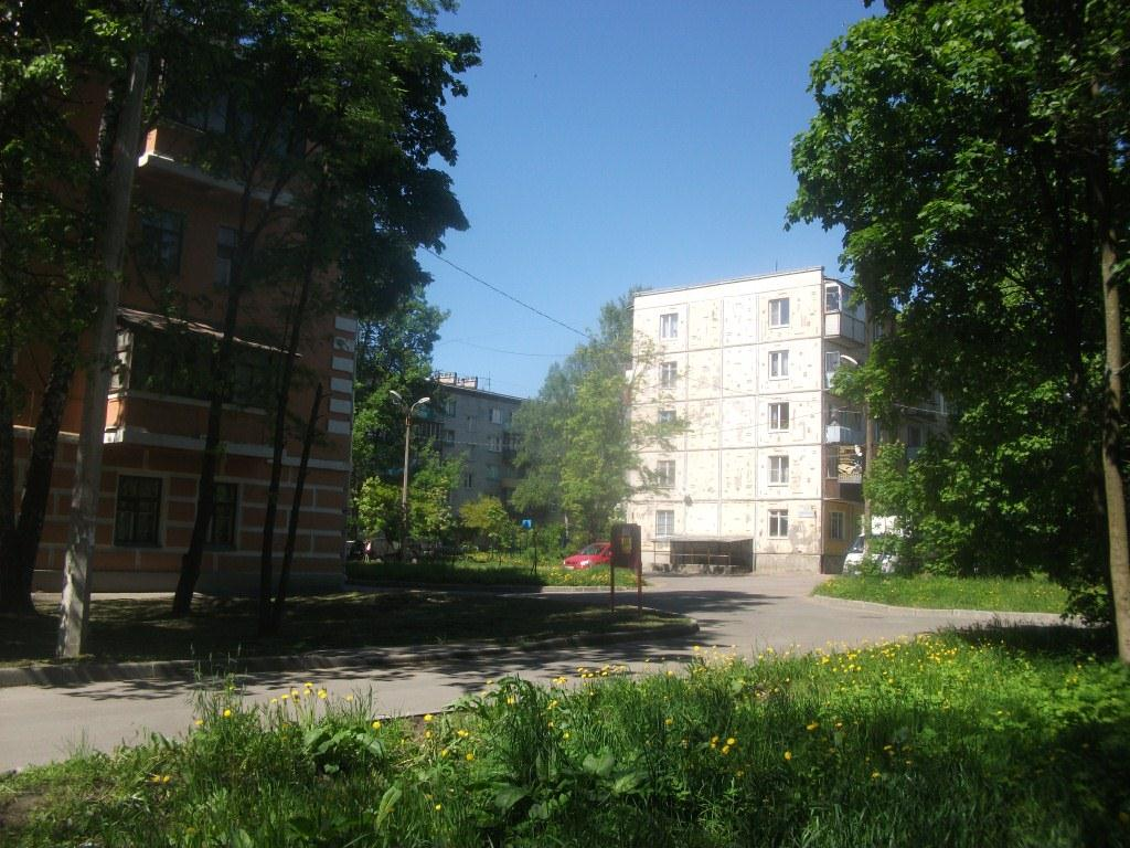 Старая часть Осиновой Рощи